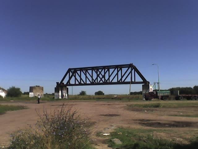 Railroad bridge built by the Buenos Aires Midland Railway Co., city of Mariano Acosta, Merlo Partido,Buenos Aires Province, Argentina.